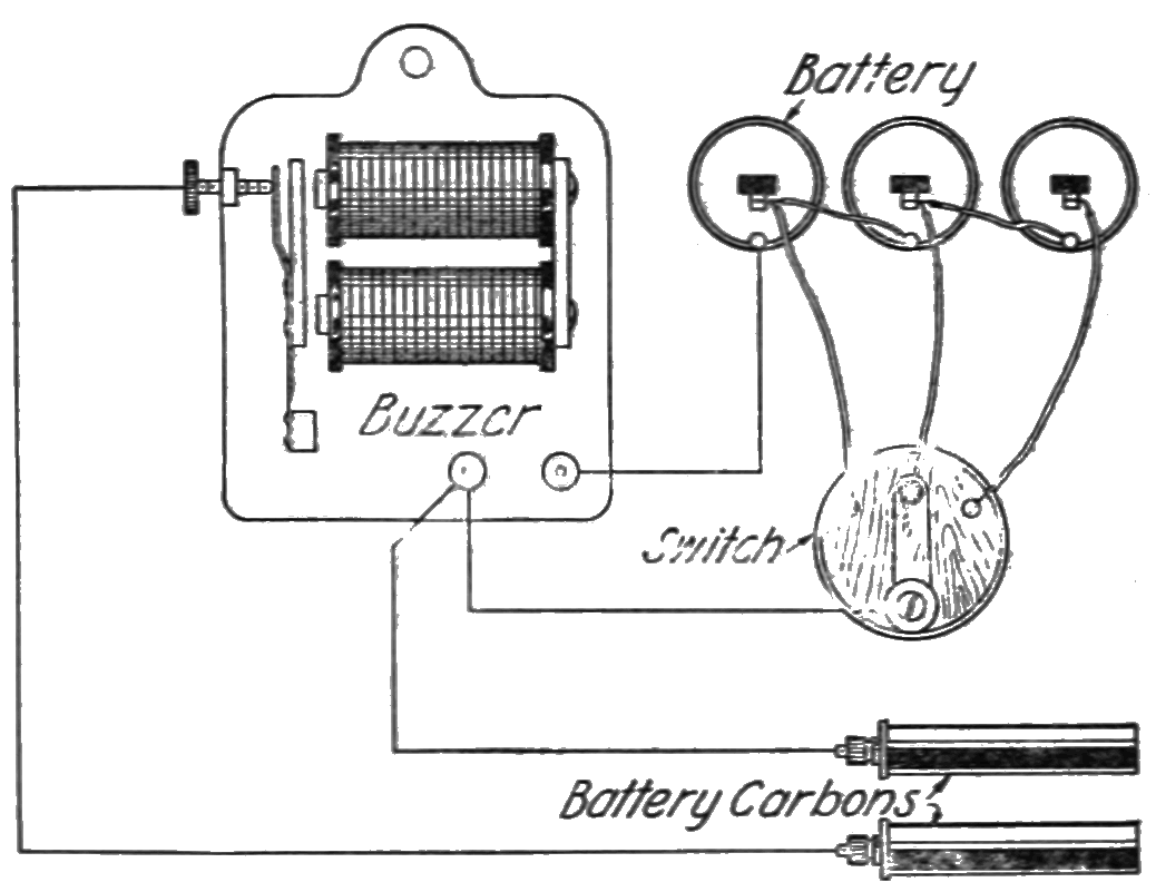 Battery operated medical emergency buzzer